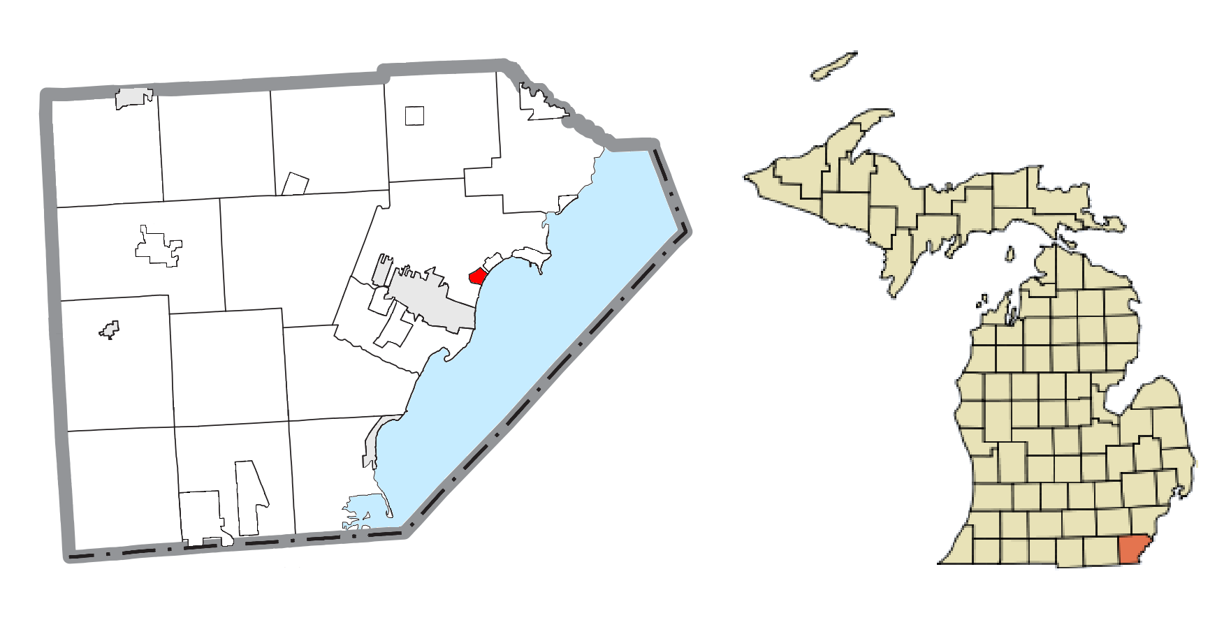 Detroit Beach, MI